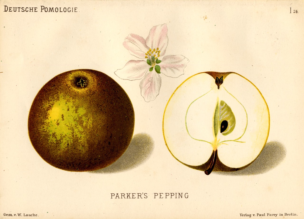 Illustration 24 from Deutsche Pomologie - Aepfel Apple cultivar shown: Parker's Pepping